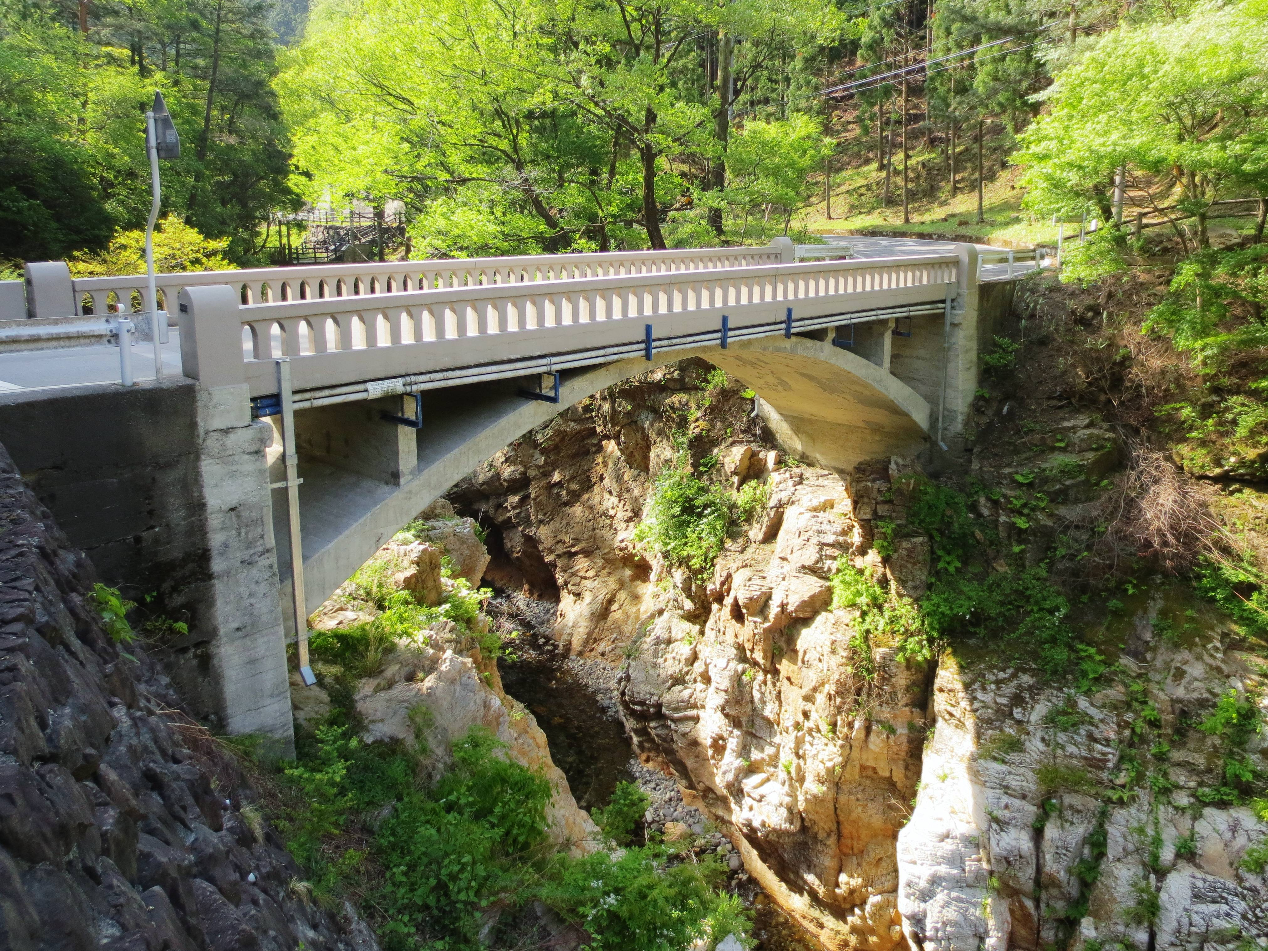 Semi Valley (Nanmoku, Gunma).